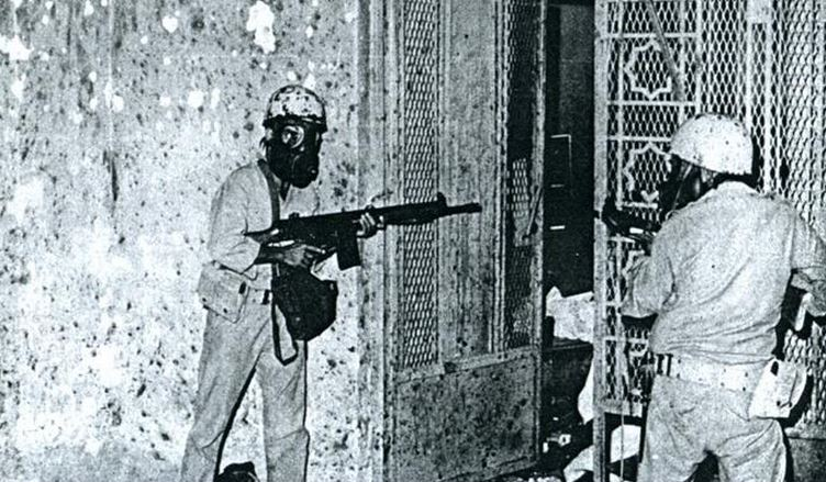 Saudi soldiers fighting their way into the Qaboo Underground beneath the Grand Mosque of Mecca, 1979